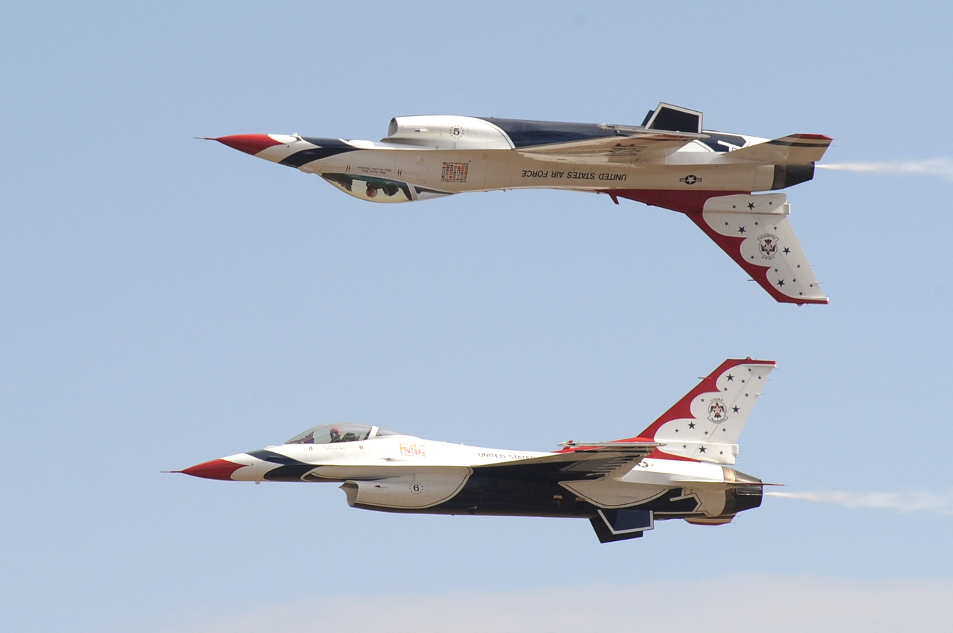 USAF ThunderBirds 「CALIPSO」